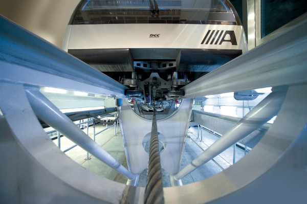 Doppelmayr Cable Car, Cable-Propelled Technology for APM-Systems